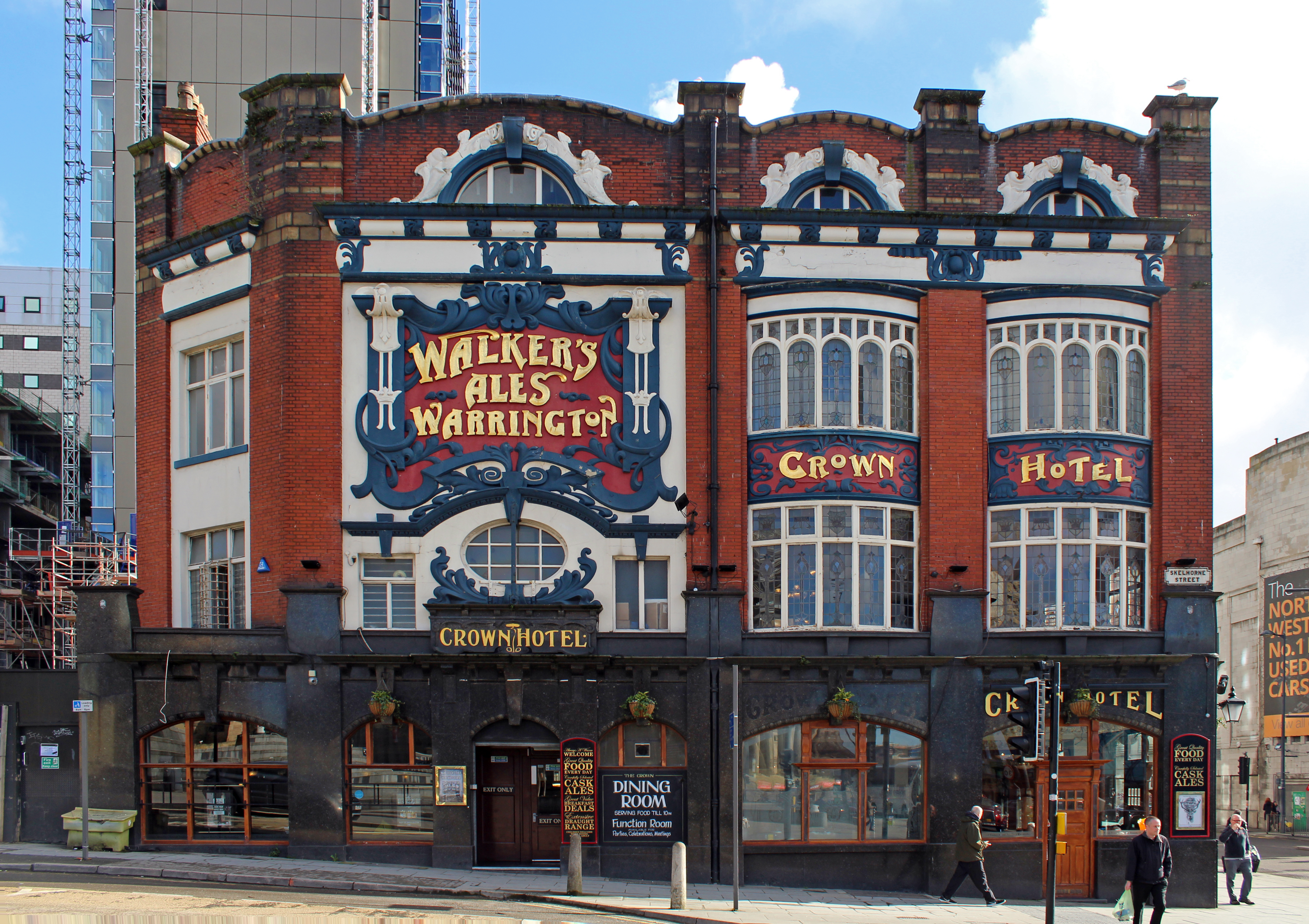 Left return of the Grade II listed Crown Hotel, built 1905 in art nouveau style, on Skelhorne Street, Liverpool.